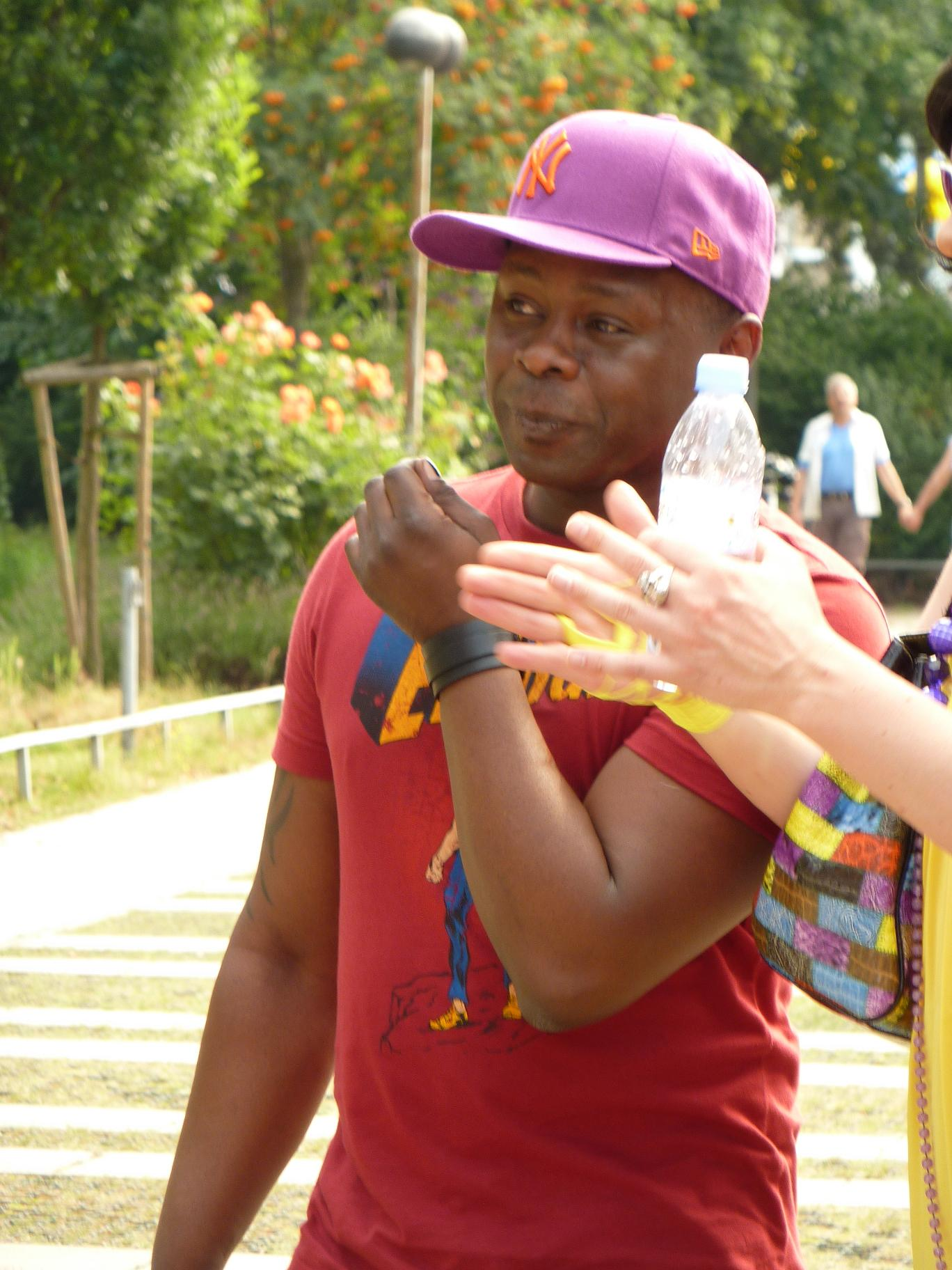 Jimmy Joe from the band Sqeezer